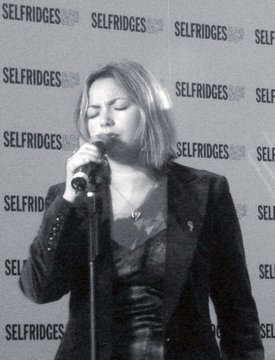 Charlotte Church performing at Selfridges